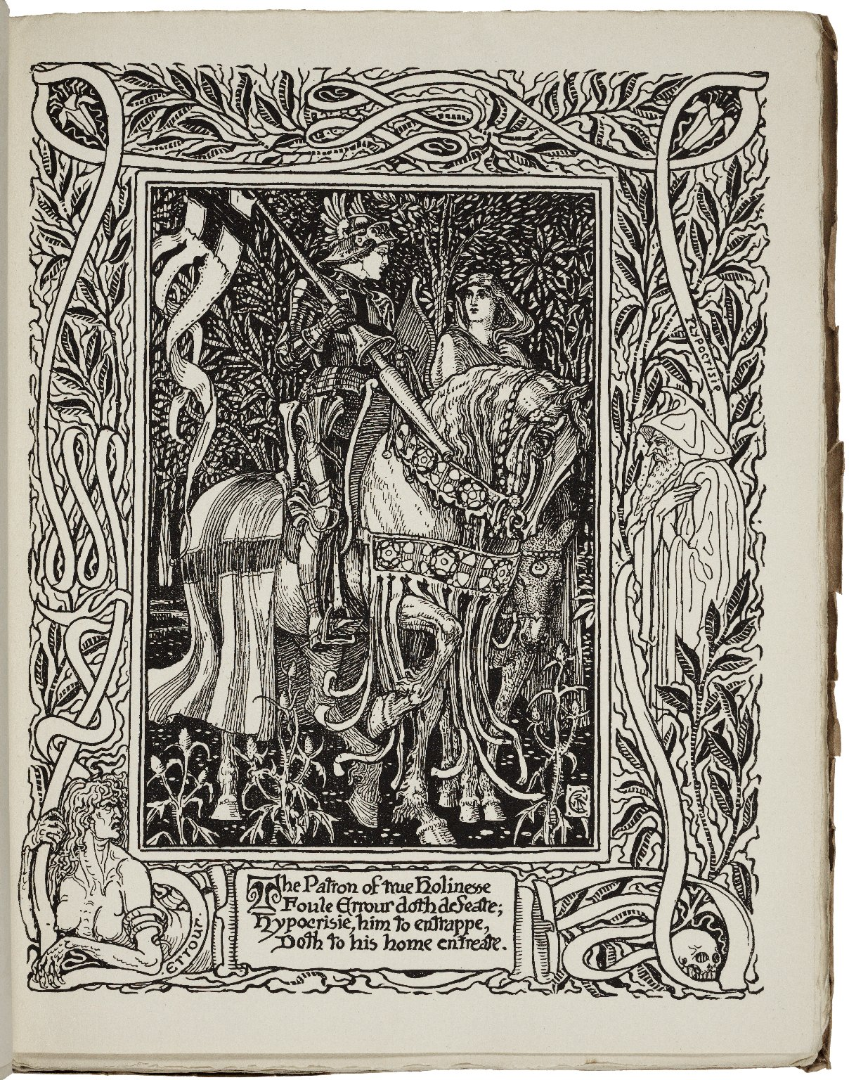 Book I, Part l, before page 5 of the 1895-1897 edition of Edmond Spenser's The Faerie Queene